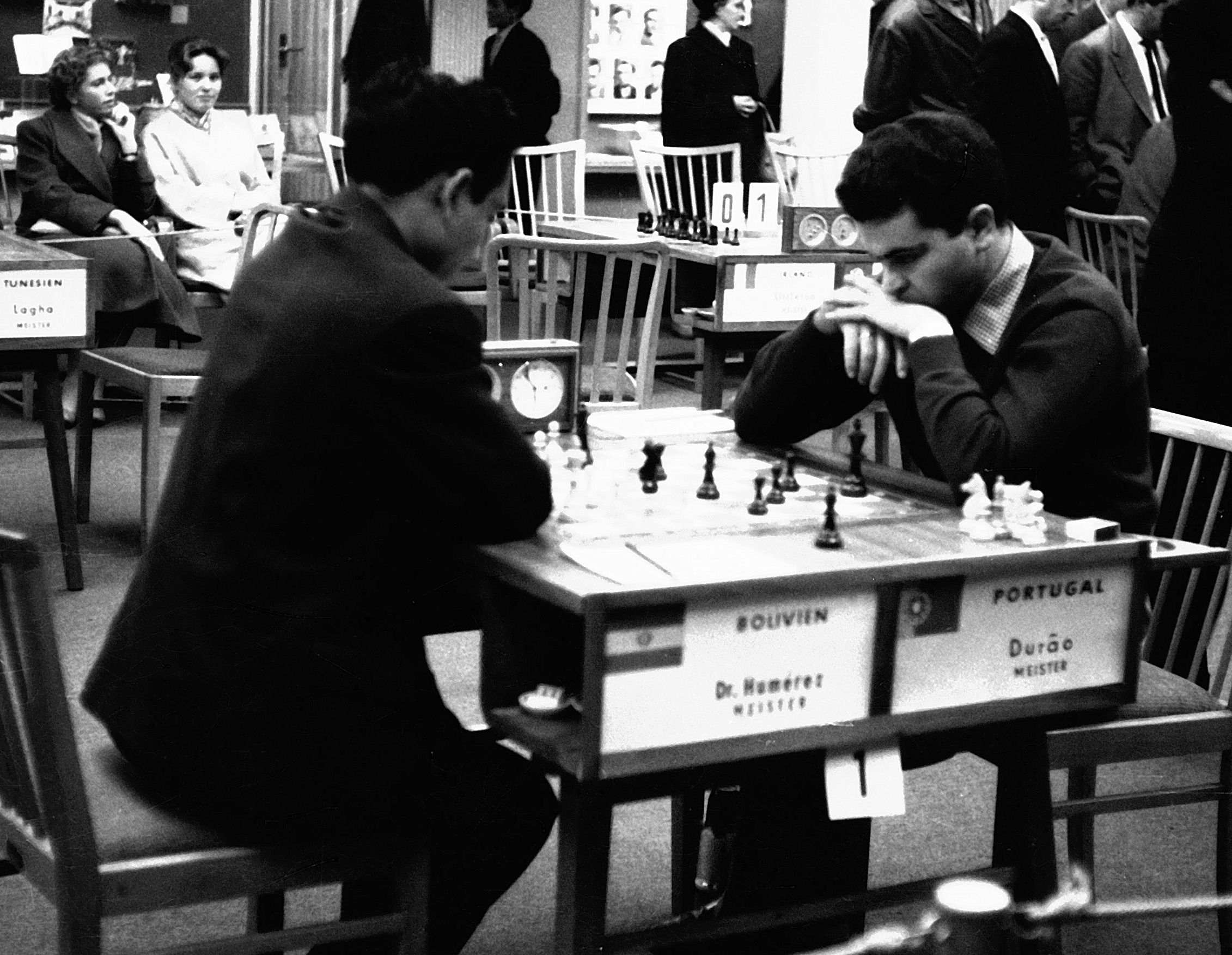 Dr.Humérez - Durão, Leipzig 1960